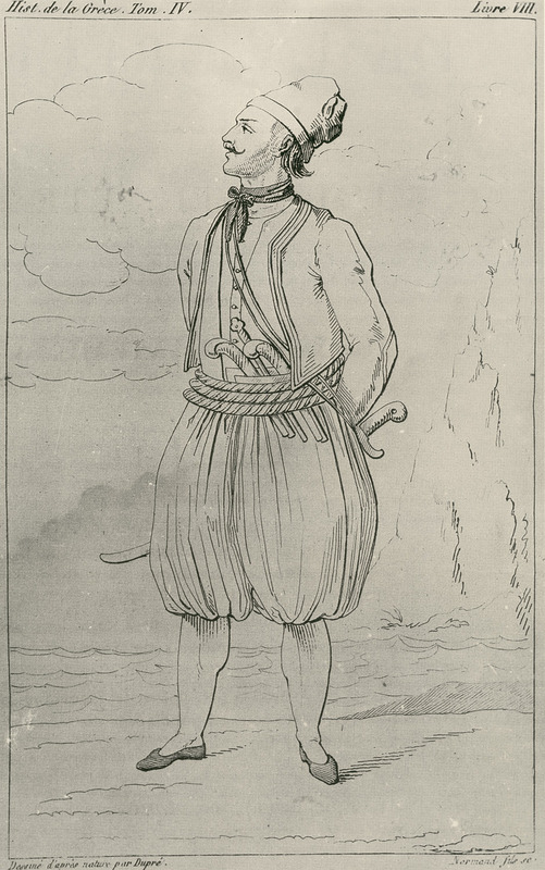 Konstantinos Kanaris, lithograph by Louis Dupré - 1827